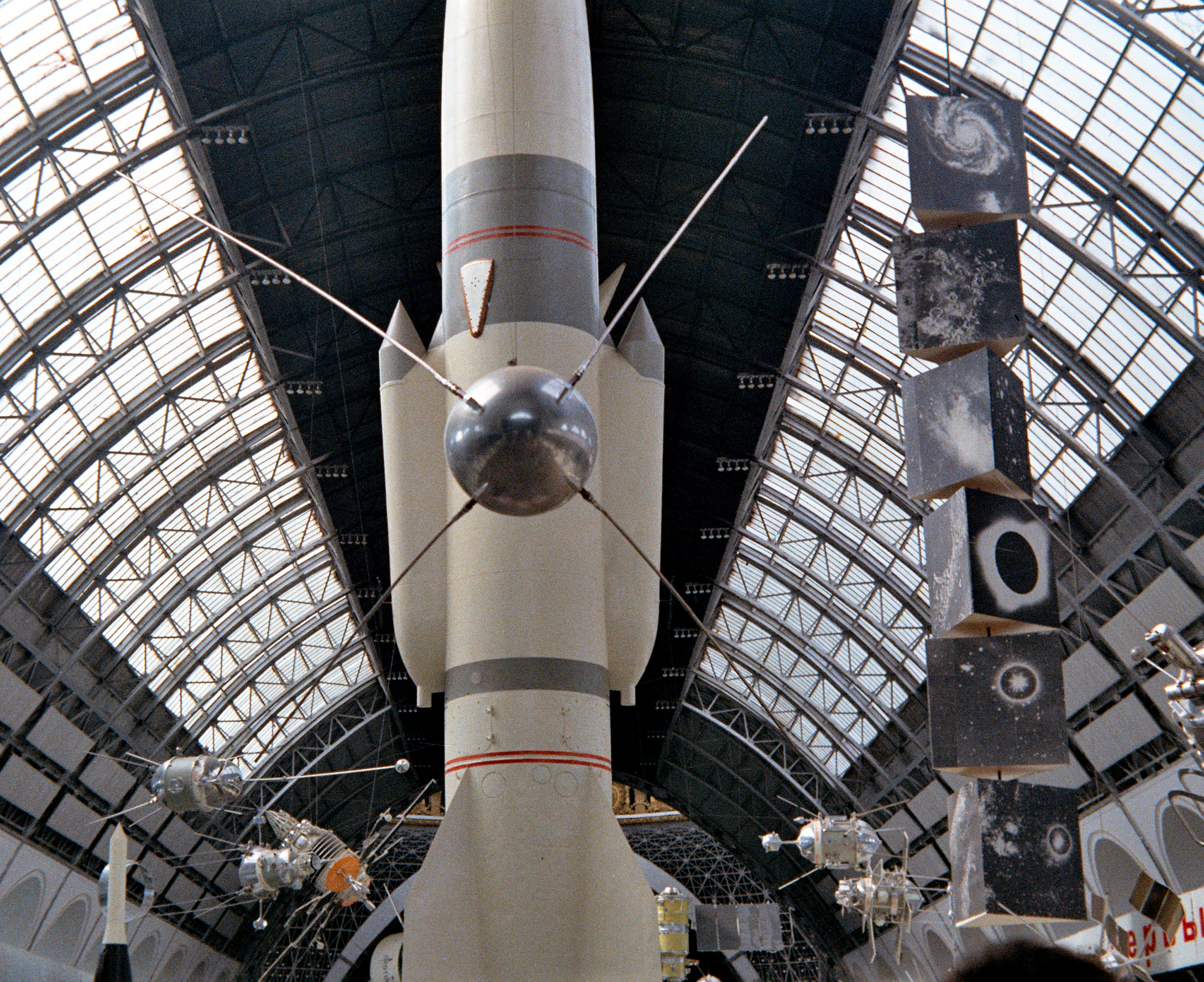 Schau der Wirtschaftserfolge, Moskau - Halle des Kosmos - Sputnik 1